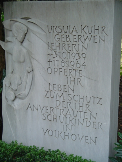 Gravestone for Ursula Kuhr on Südfriedhof (Köln), one of the two teachers killed in the Cologne school massacre in 1964. Its inscription reads „Ursula Kuhr (nee Erwen) teacher *31.01.1939 +11.6.1964 sacrificed her life for the protection of the school children entrusted to her in Volkhoven“